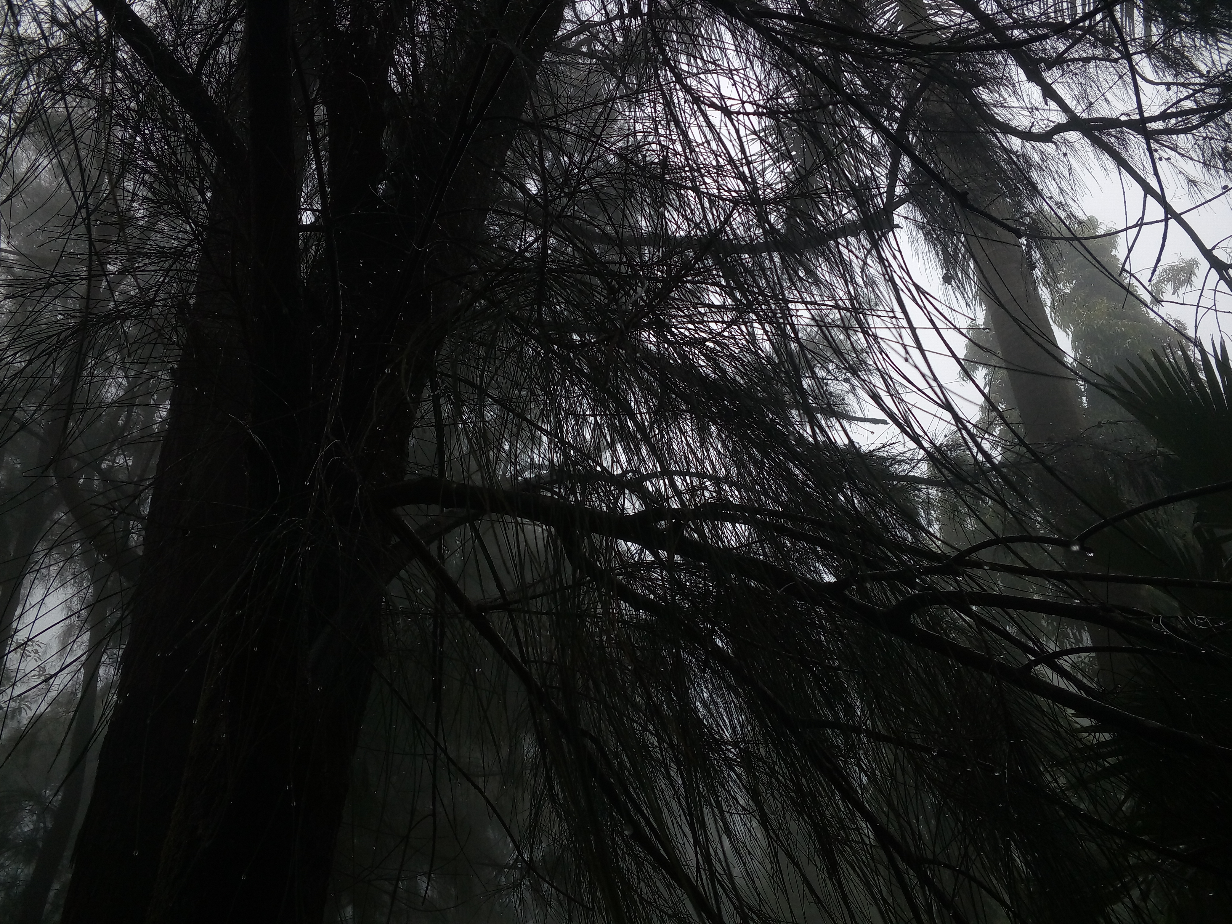 Australian Whistling Pine (She Oak) tree at Chikhaldara